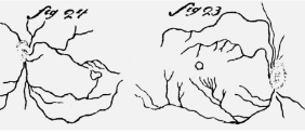 Purkinje Tree of Left and Right Eyes